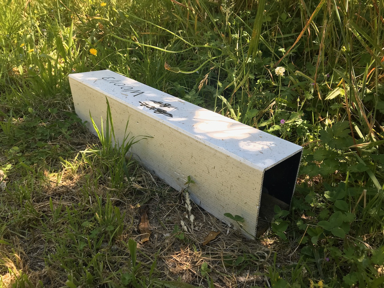 Tracking tunnel at Brook Waimārama Sanctuary, Nelson, New Zealand